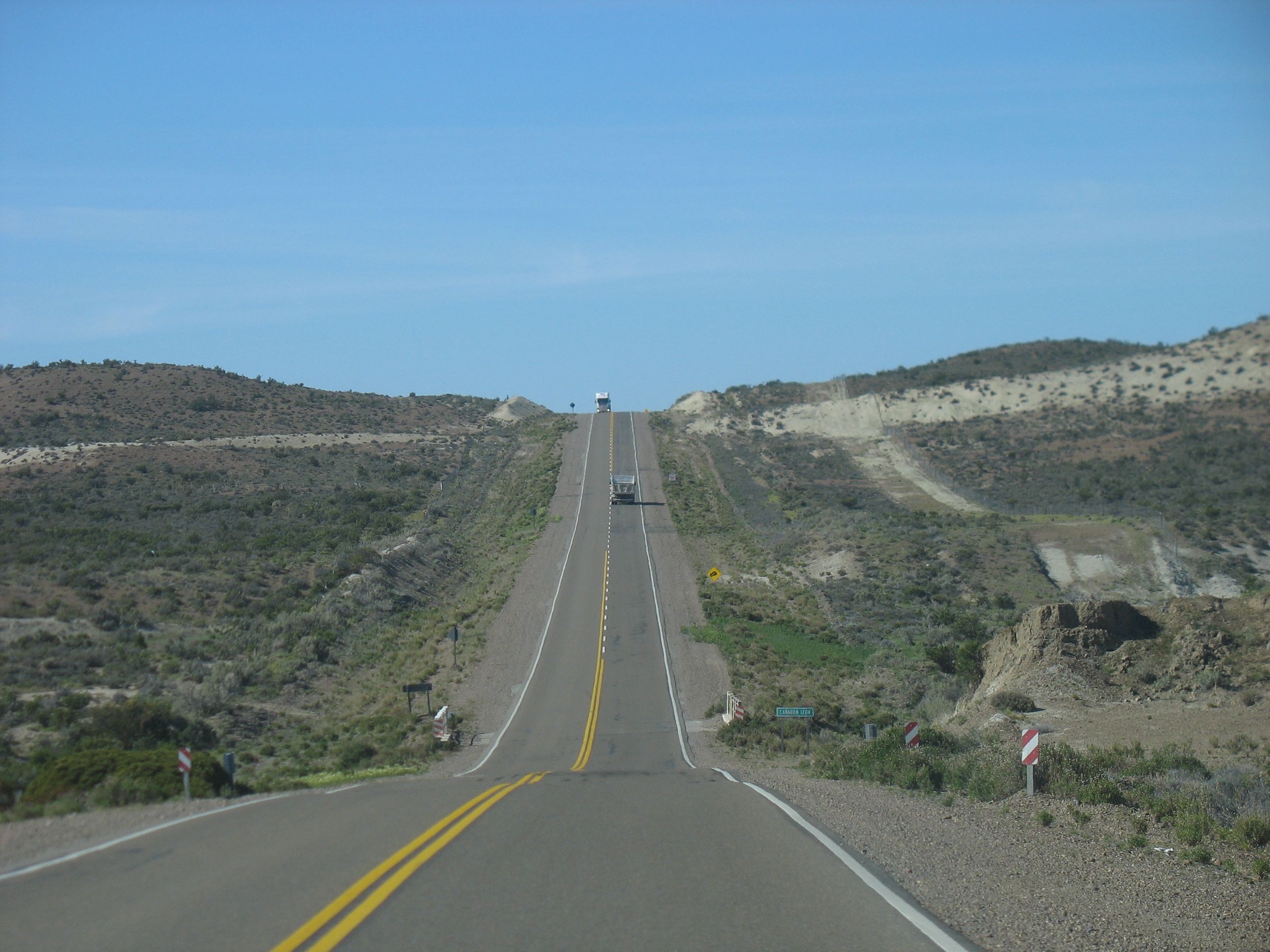 View of National Route 3 of Argentina, in the zone of Cañadon Leon, 30 km south of Caleta Olivia (Santa Cruz Province)